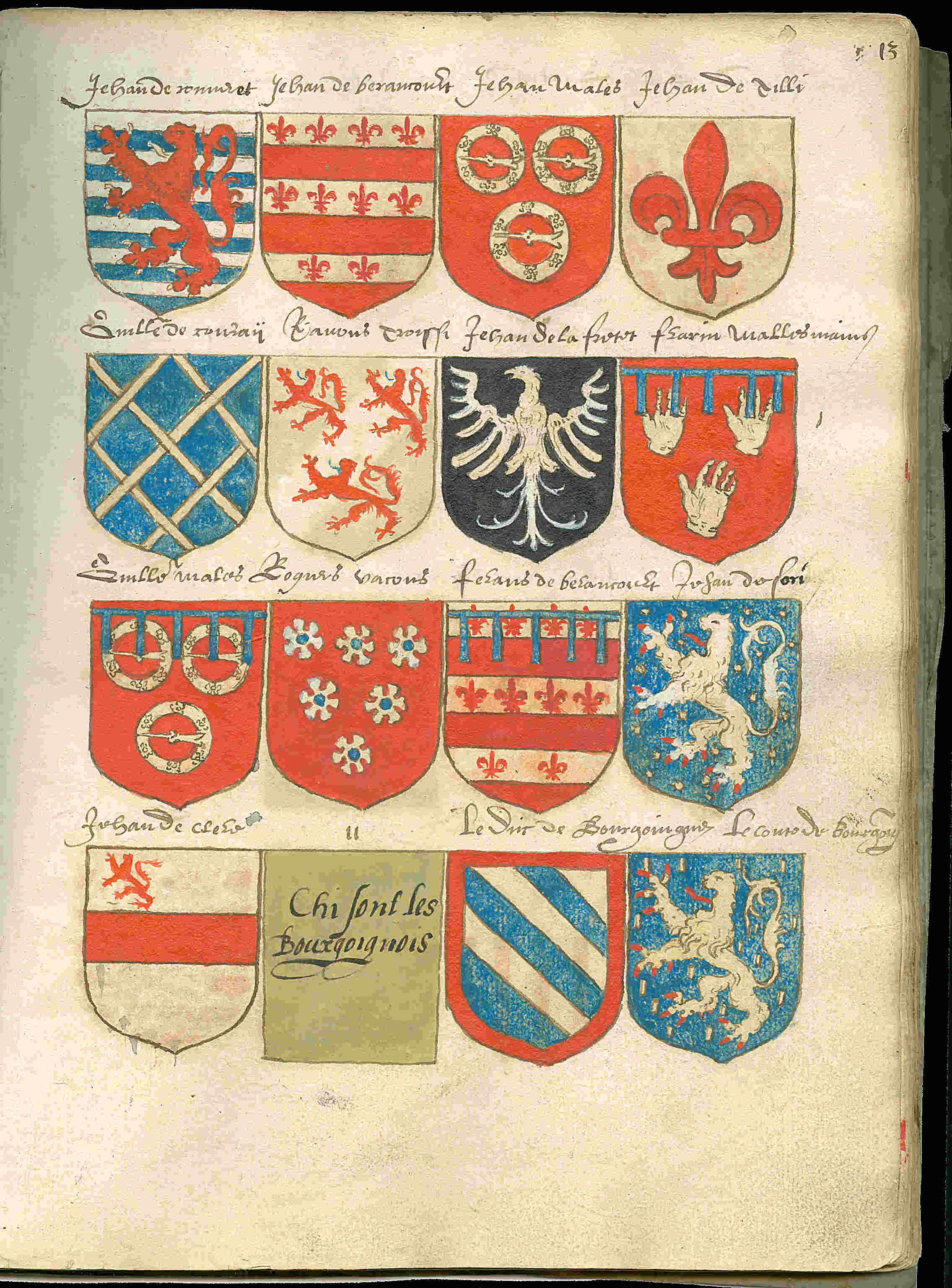 Page 13 from a copy of the Beyeren armorial / Wapenboek Beyeren from ca. 1600. The original Beyeren armorial from 1405 can be viewed at the website of the KB